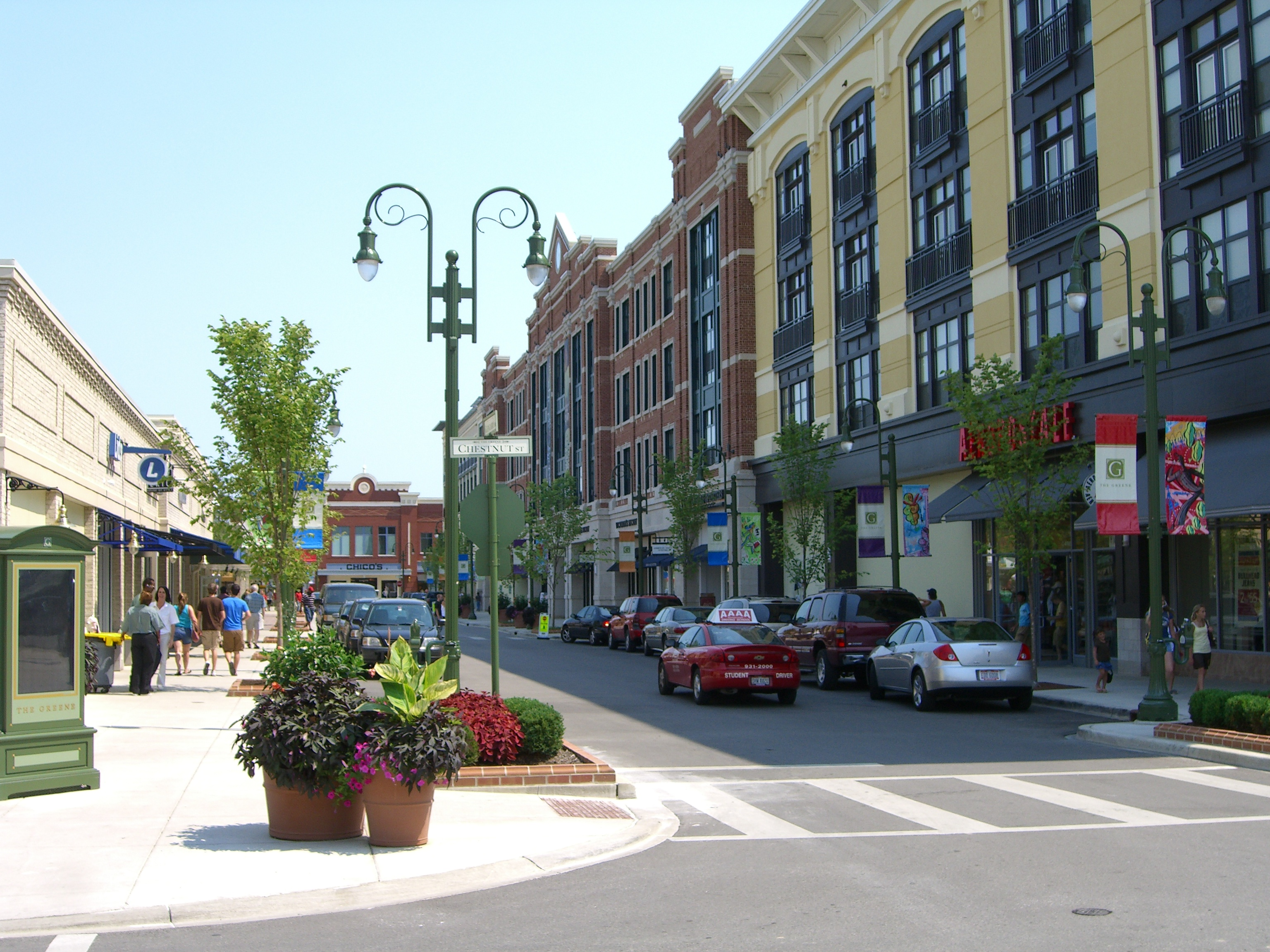 A view of The Greene towne centre in Beavercreek, Ohio.